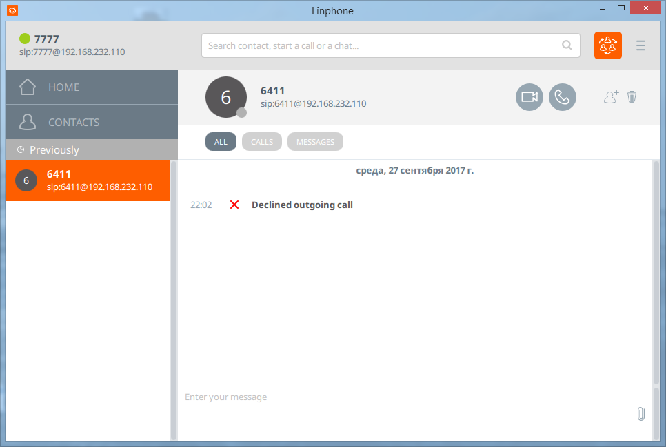 Linphone 4.1 screenshot in Windows 8